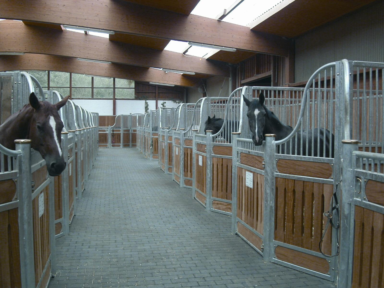 modern box stable